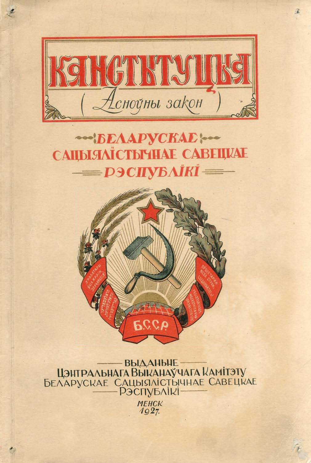 The Constitution of the BSSR in 1927